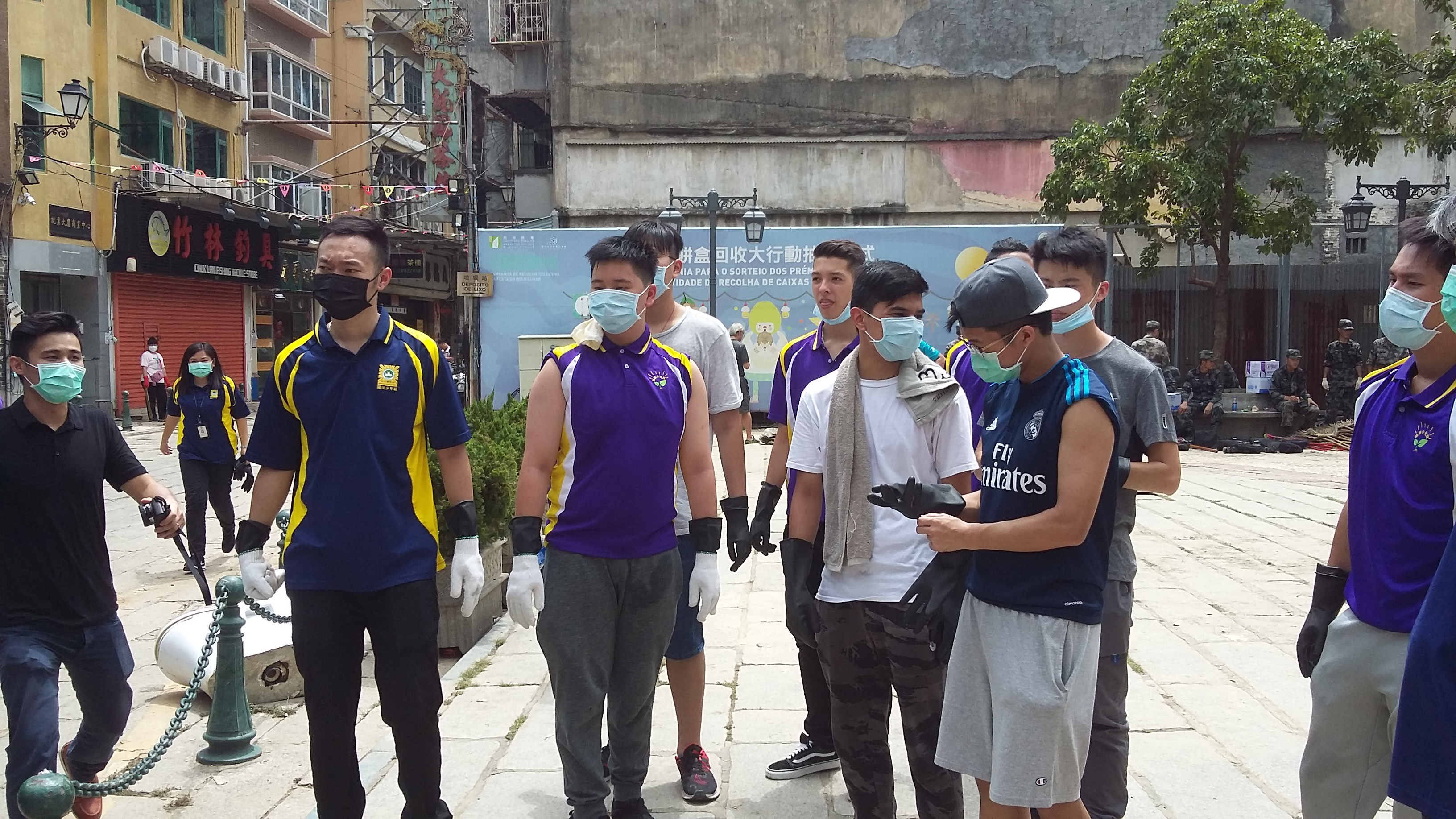 Second day after the storm, at Freguesia da Sé. Drivers joining in the trash cleaning.